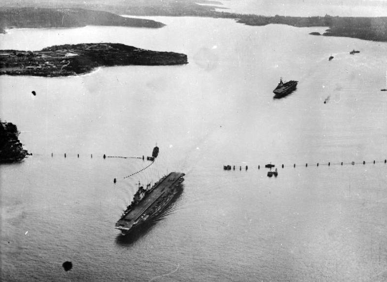 Aerial photograph of HMS Formidable (R67) and HMS Implacable (R86) followed by destroyers as they passed through the boom on their return to Sydney after the defeat of Japan.